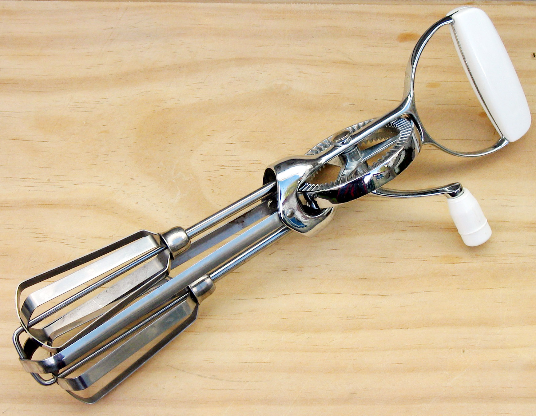 This is a hand powered beater (also known as a hand mixer).